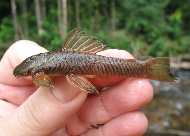 Live-color photographs of Guyanancistrus nassauensis, Suriname, Marowijne River, Nassau Mountains, Paramaka Creek (J. W. Armbruster)